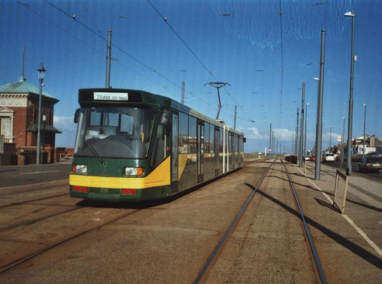 lewis lesley,own photo